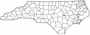 Category:North Carolina Dot Maps